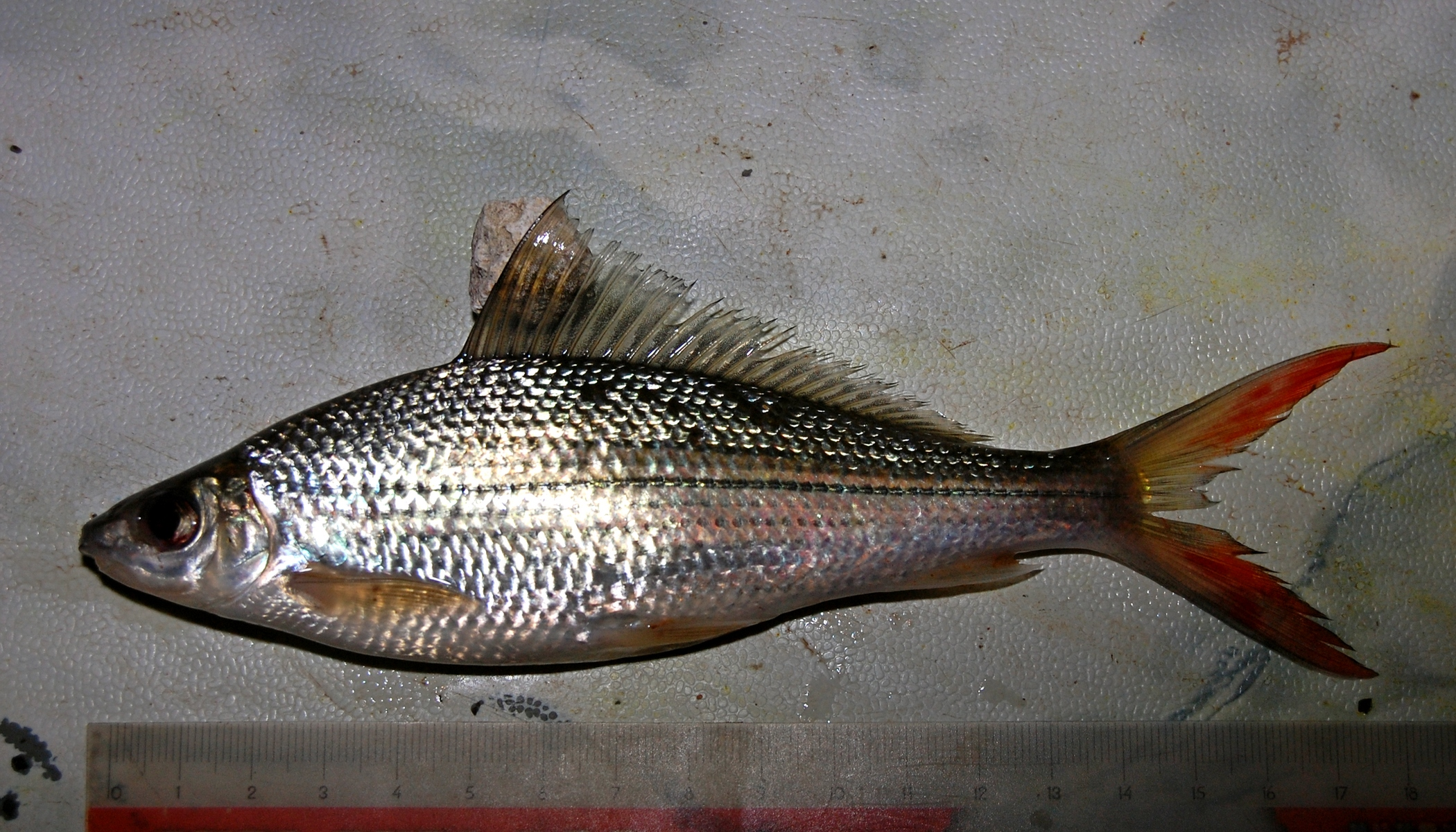 Labiobarbus fasciatus, 144 mm SL (standard length). From Kawan Batu River (tributary of Mentaya River), Upper Seruyan, Central Kalimantan, Indonesia.